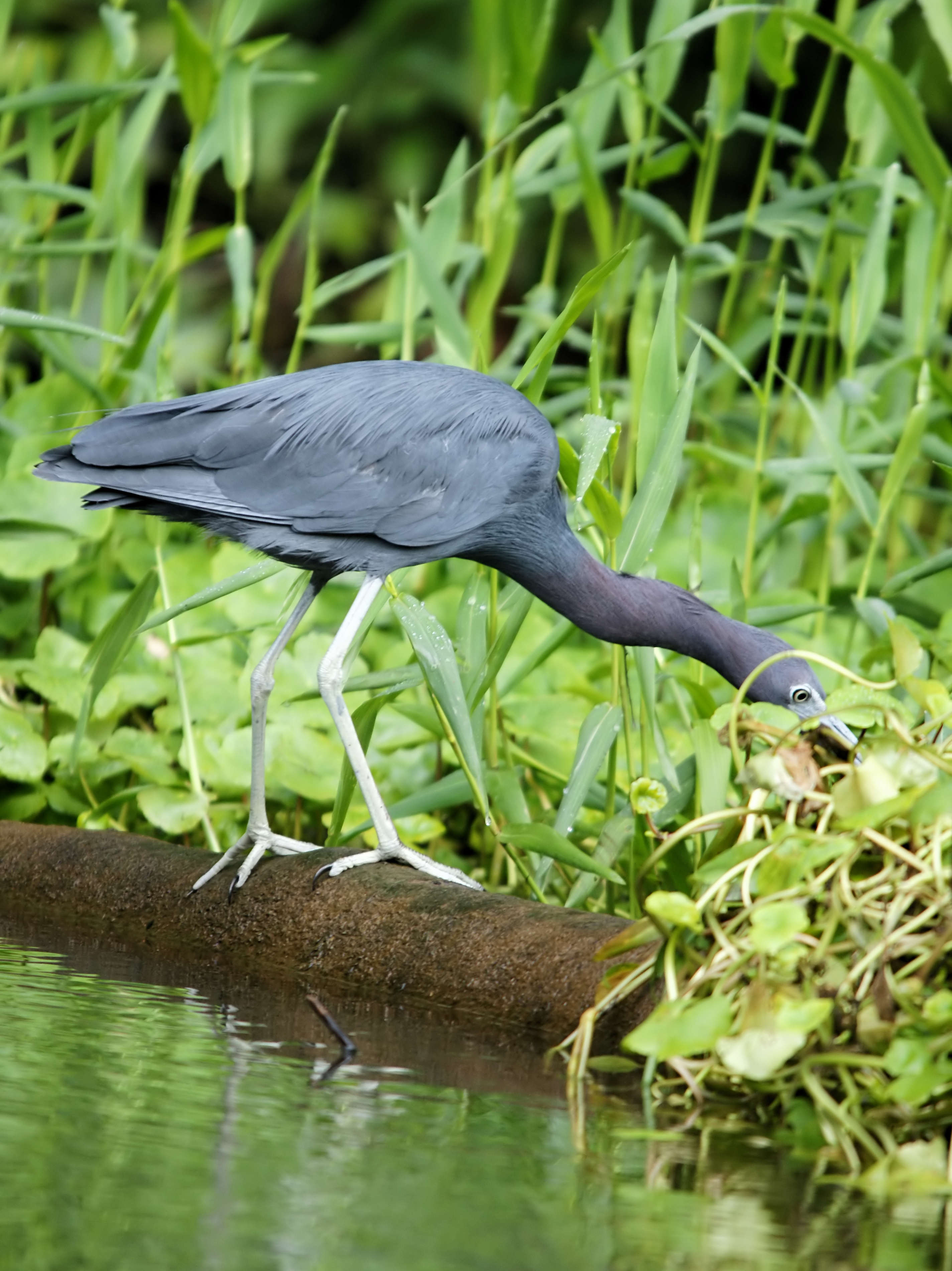 Little Blue Heron at Tortuguero, Costa Rica